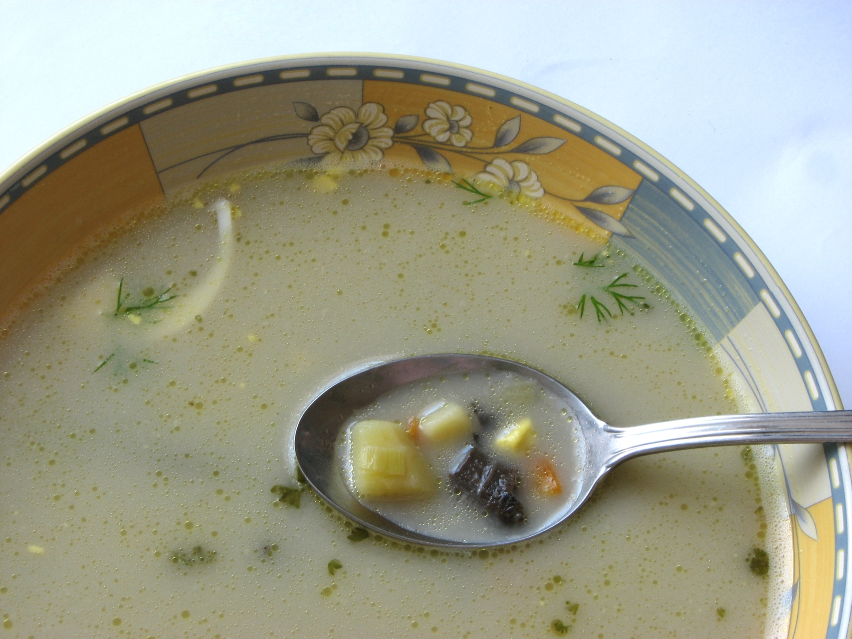 forest mushrooms soup